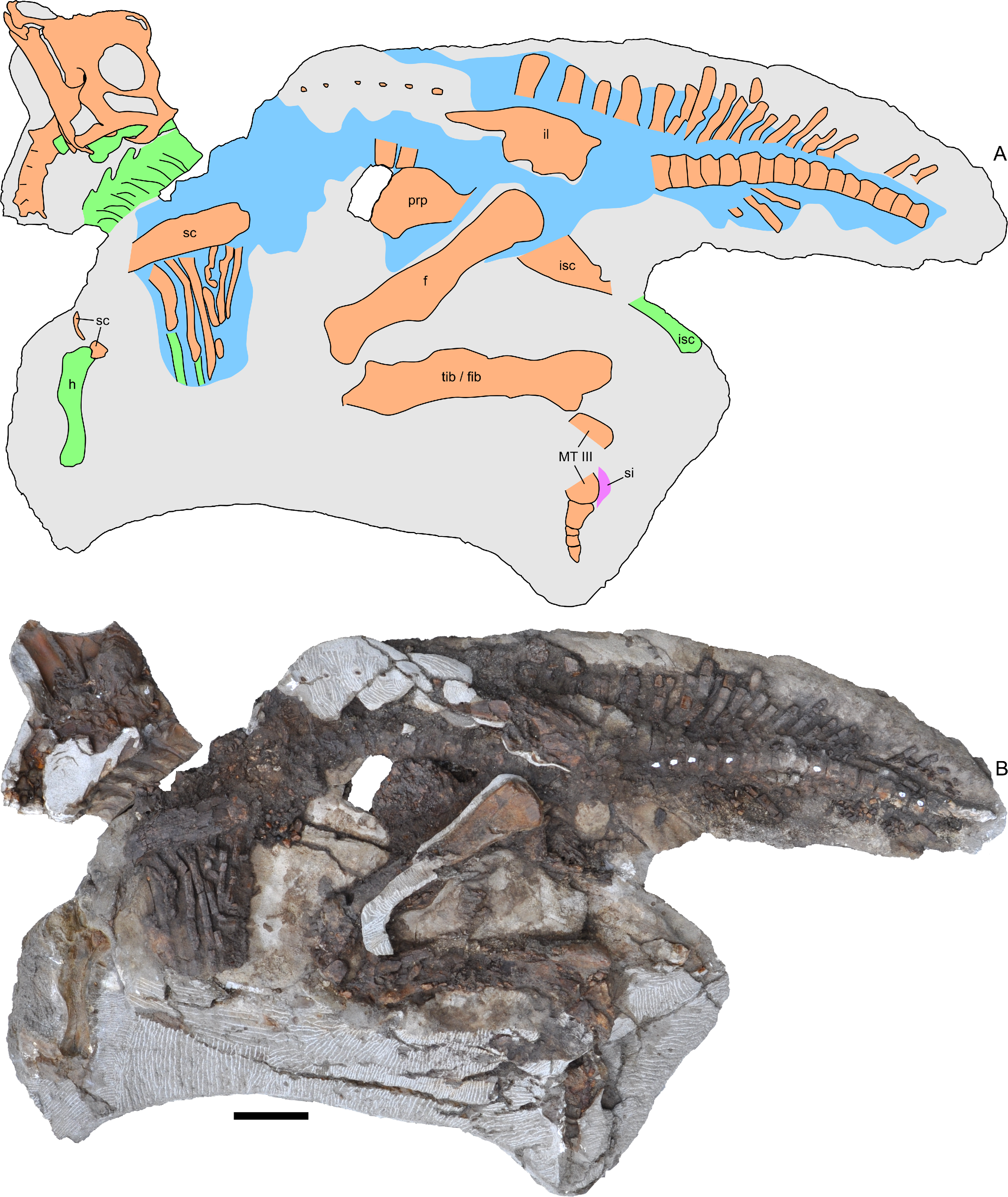 Skeleton of Parasaurolophus sp., RAM 14000, in left lateral view. (A) interpretive drawing; (B) photograph. Bones are bounded by solid lines and colored orange; blue indicates areas of fragmented and powdered bone due to weathering, and green indicates bone impressions. The pink area indicates the location of skin impressions shown in Fig. 21. In (A), the left half of the skull is indicated. A detailed outline of the medial surface of the right half of the skull shown in (B) is contained in Fig. 13B. Abbreviations: f, femur; fib, fibula; h, humerus; il, ilium; isc, ischium; MT III, metatarsal III; prp, prepubic process; sc, scapula; si, skin impression; tib, tibia. Scale bar equals 10 cm.